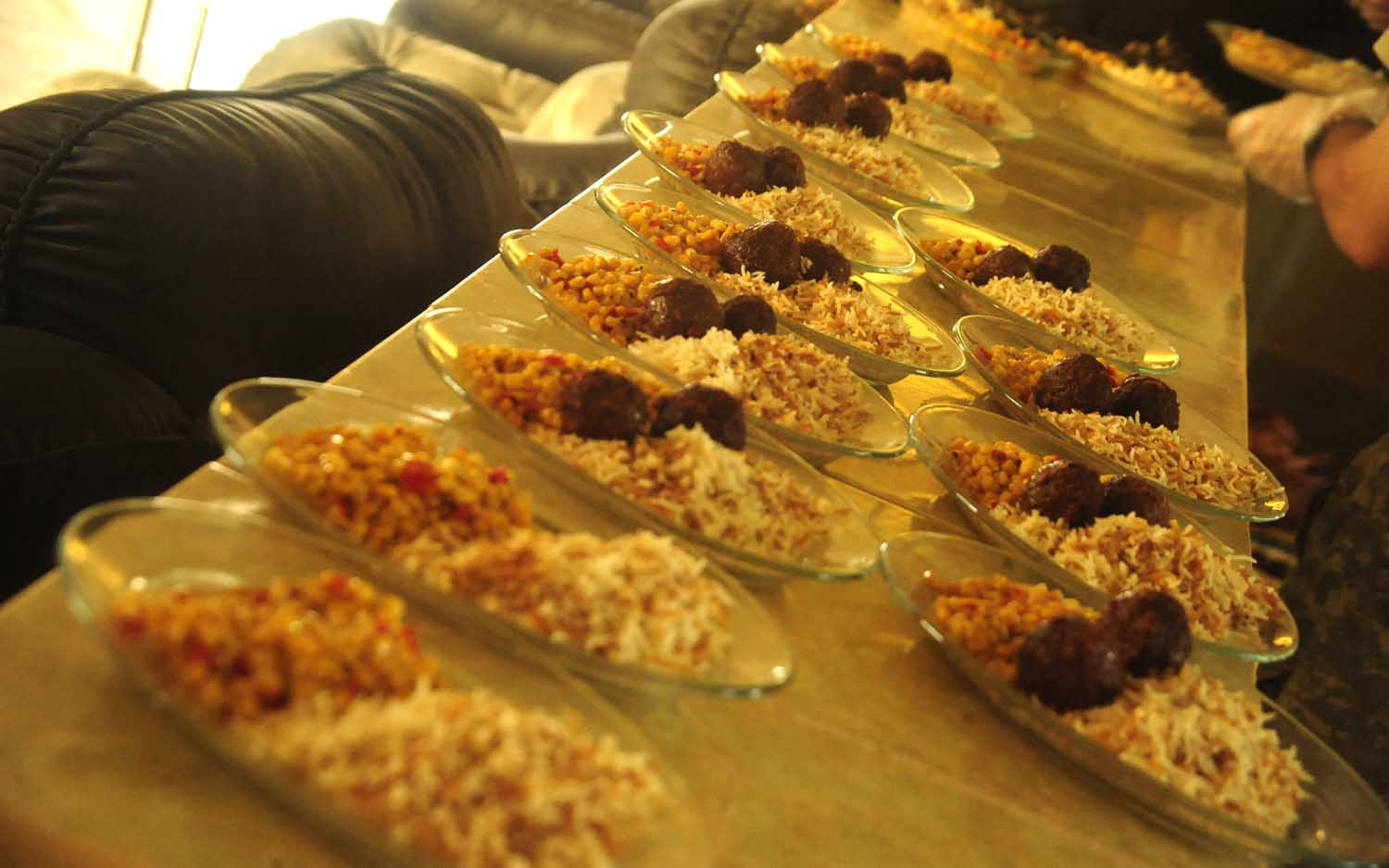 100906-F-3322D-031: Rice, meatballs and corn are placed on plates in preparation for the Iftar Dinner held at Forward Operating Base Farah in Afghanistan, Sept. 6, 2010. Dignified leaders in Farah Province, Coalition forces and United States Agency for International Development representatives gathered to take part in an Iftar Dinner hosted by The Department of State. The dinner was hosted to keep with Islamic traditions, as a gesture of respect and hospitality to Provincial Government partners. (ISAF photo by U.S. Air Force 1st Lt. Christine A. Darius)